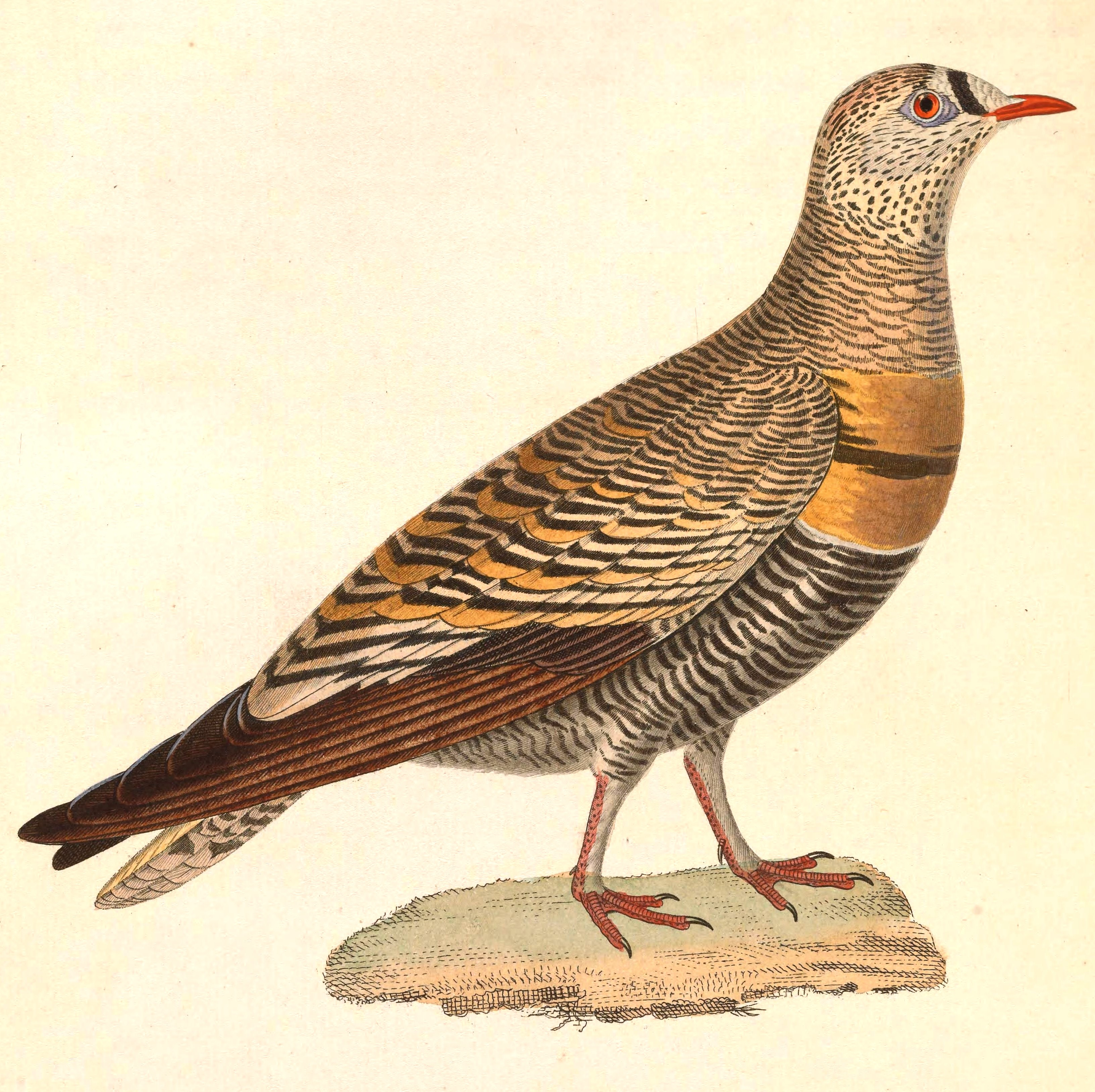 « Pterocles lichtensteinii » = Pterocles lichtensteinii (Lichtenstein's Sandgrouse) - male